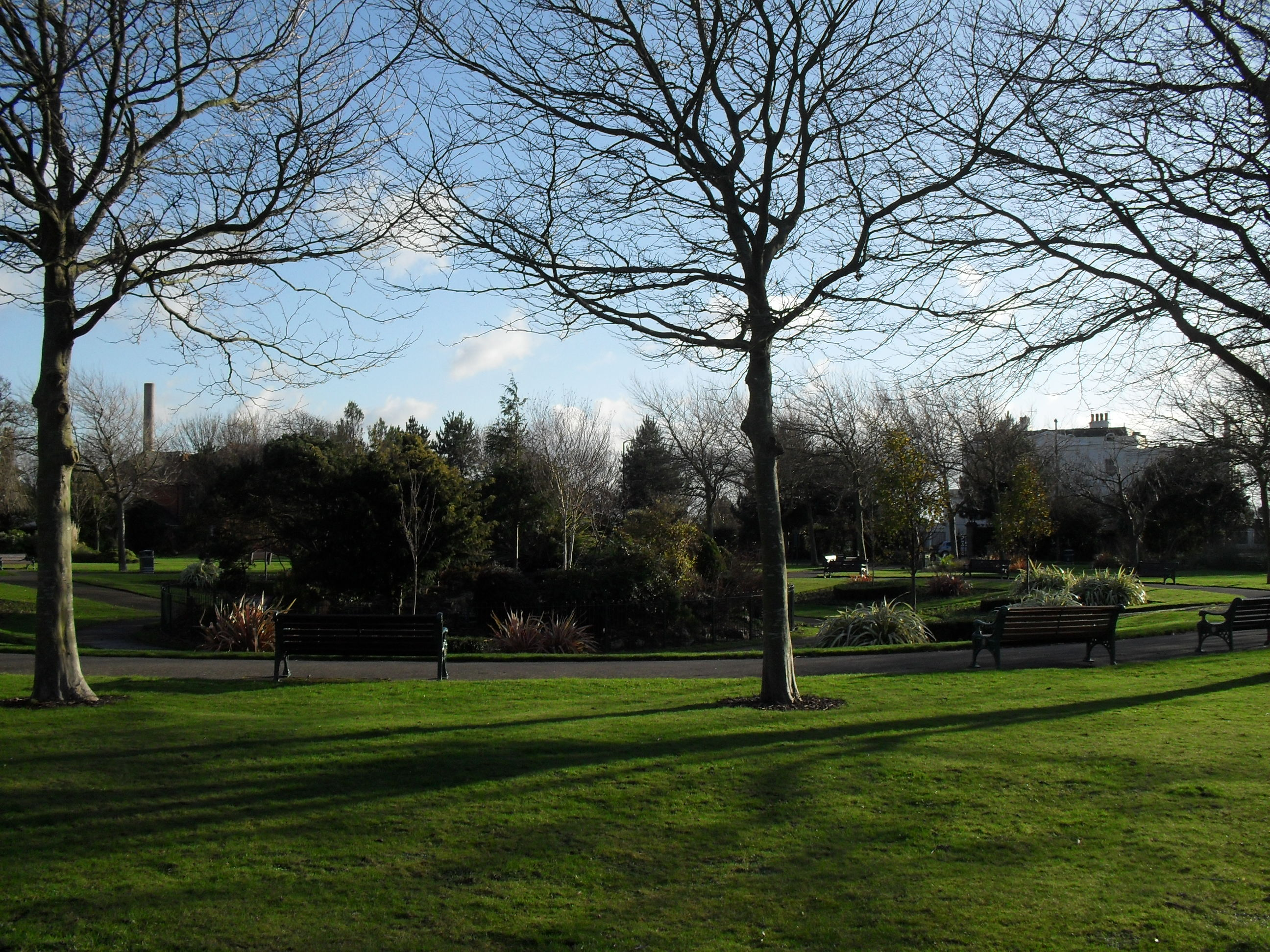 Beach House Park, Lyndhurst Road/Brighton Road, Worthing, West Sussex, England. Opened to the public in 1924. This view looks towards the possibly unique war memorial commemorating homing pigeons which died in the Second World War while on military service.